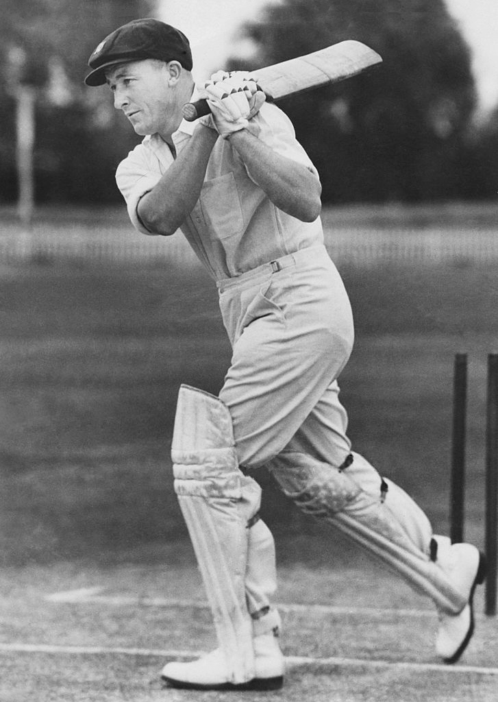 Australian cricketer Ron Hamence (1915 - 2010), circa 1946.